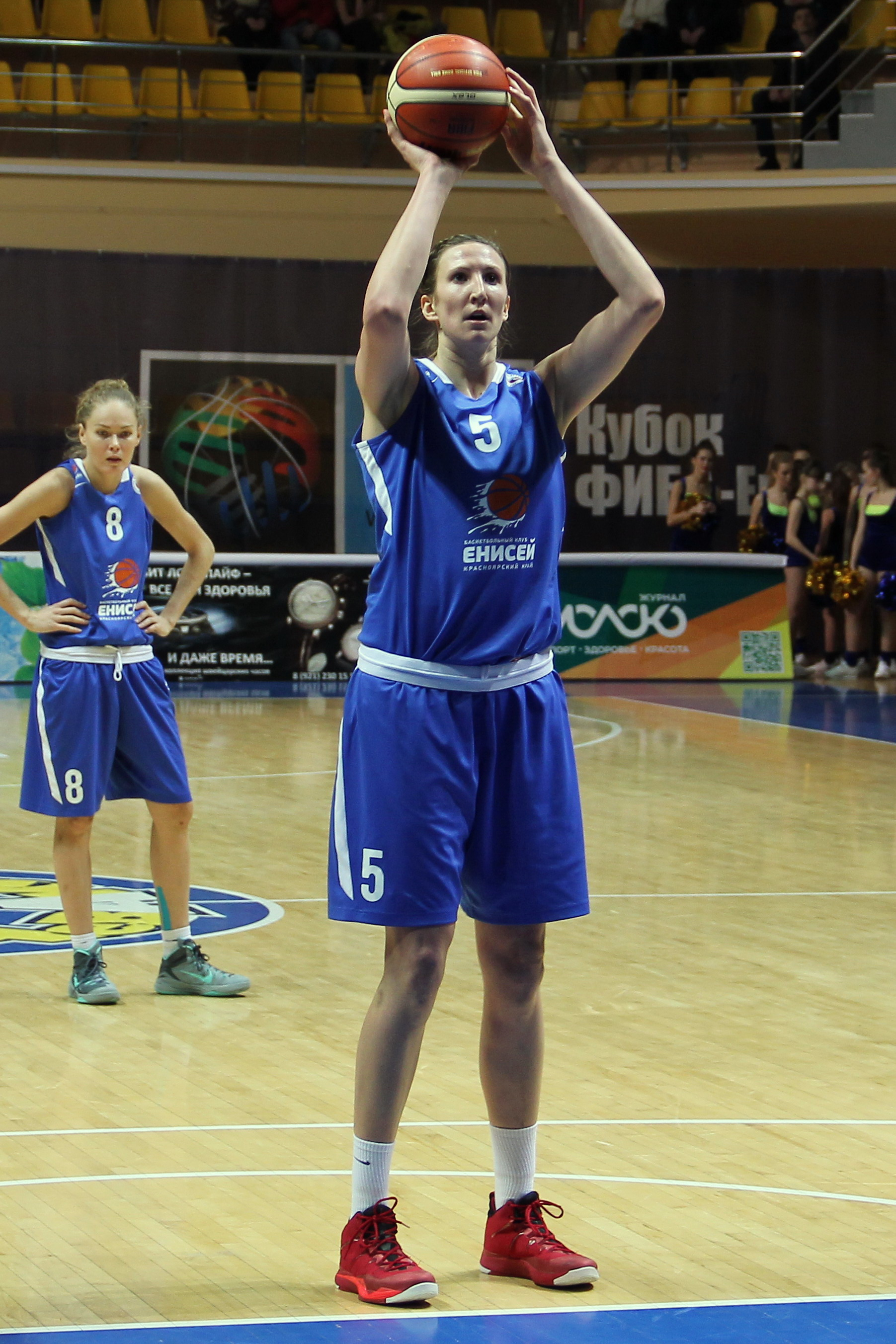 Russia, Vologda, Jennifer Hamson in game «Vologda-Chevakata» vs «Yenisei» (Krasnoyarsk)